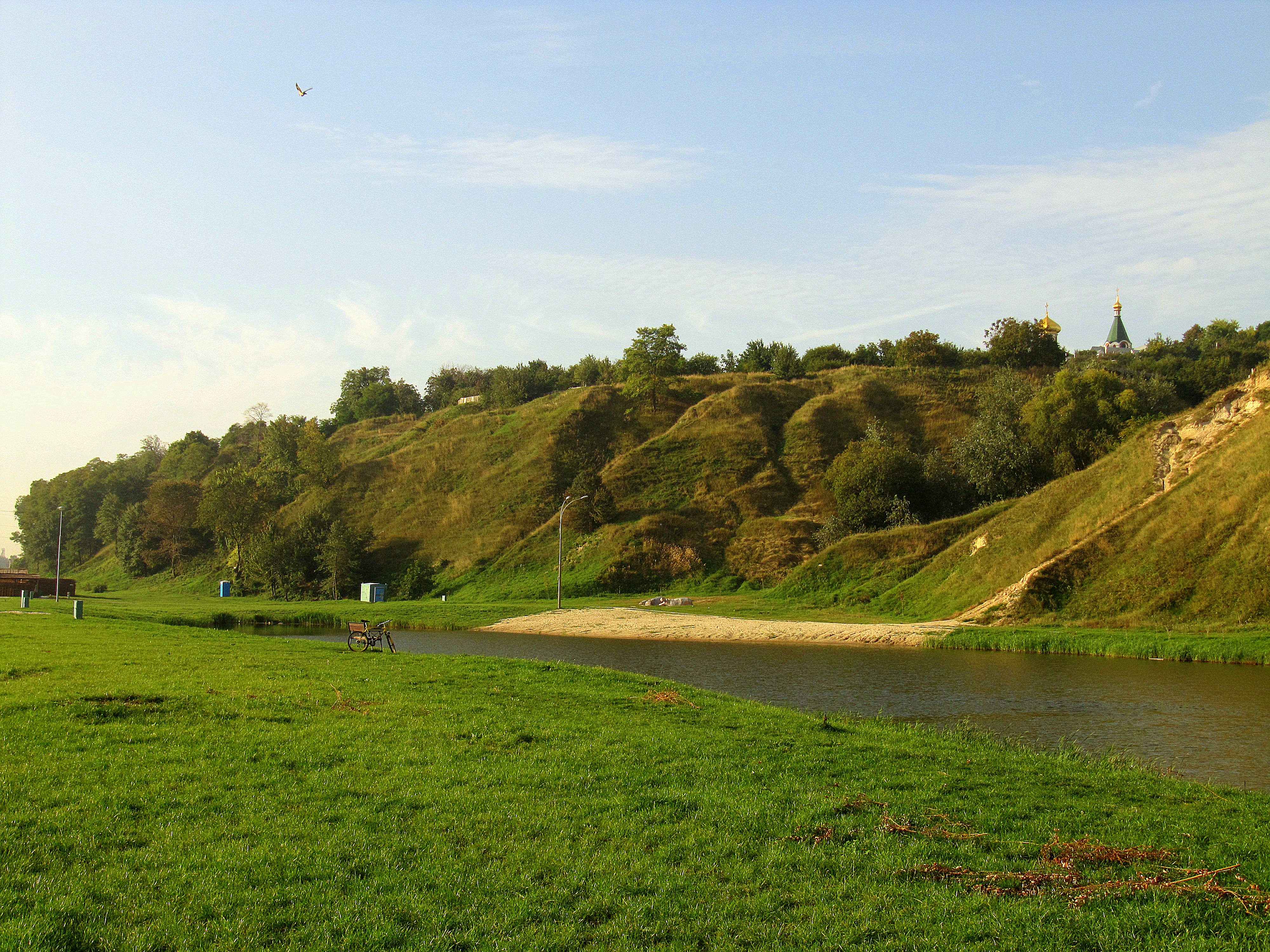 Ukraine, Vyshhorod. The historic landscape of Vyshhorod. Northern part of the defensive rampart.